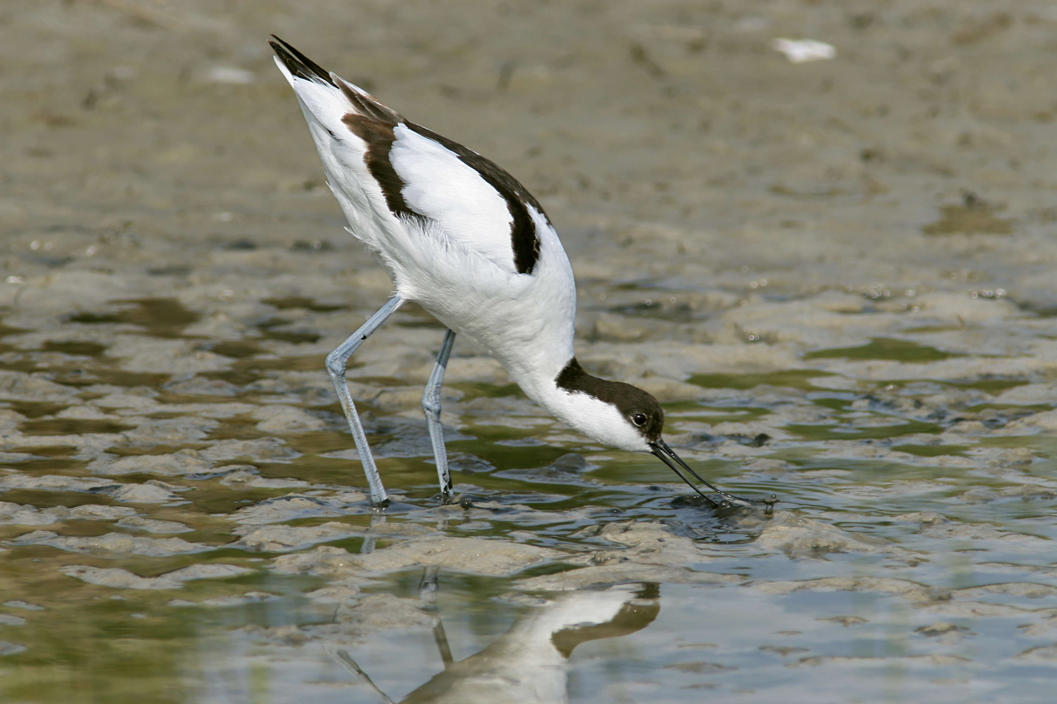 Pied Avocet (Recurvirostra avosetta) in search of food, Texel, Netherlands